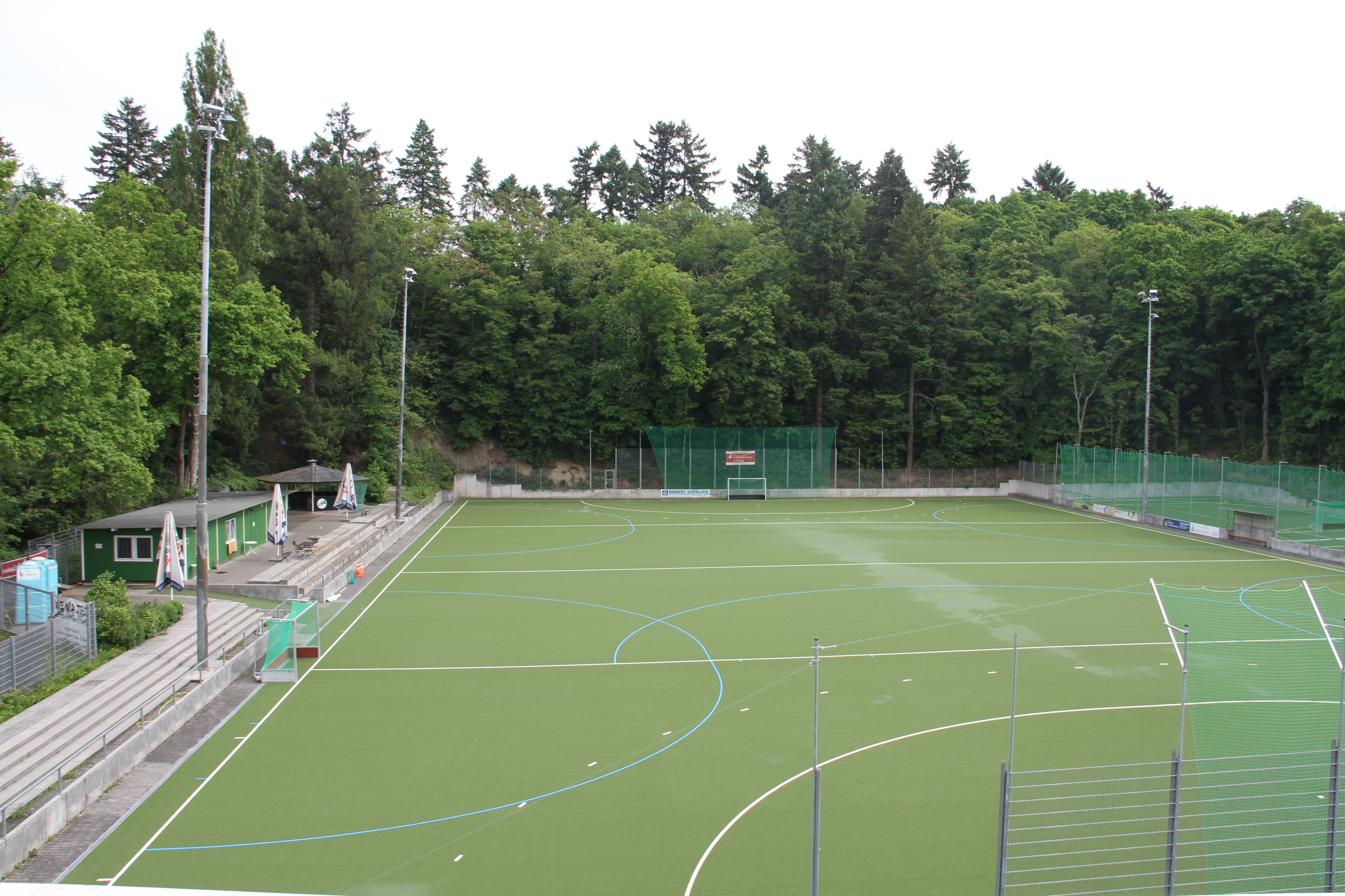 Albert-Collée-Hockeyanlage (Albert Collee Field) of the Limburger Hockeyclub in May 2012